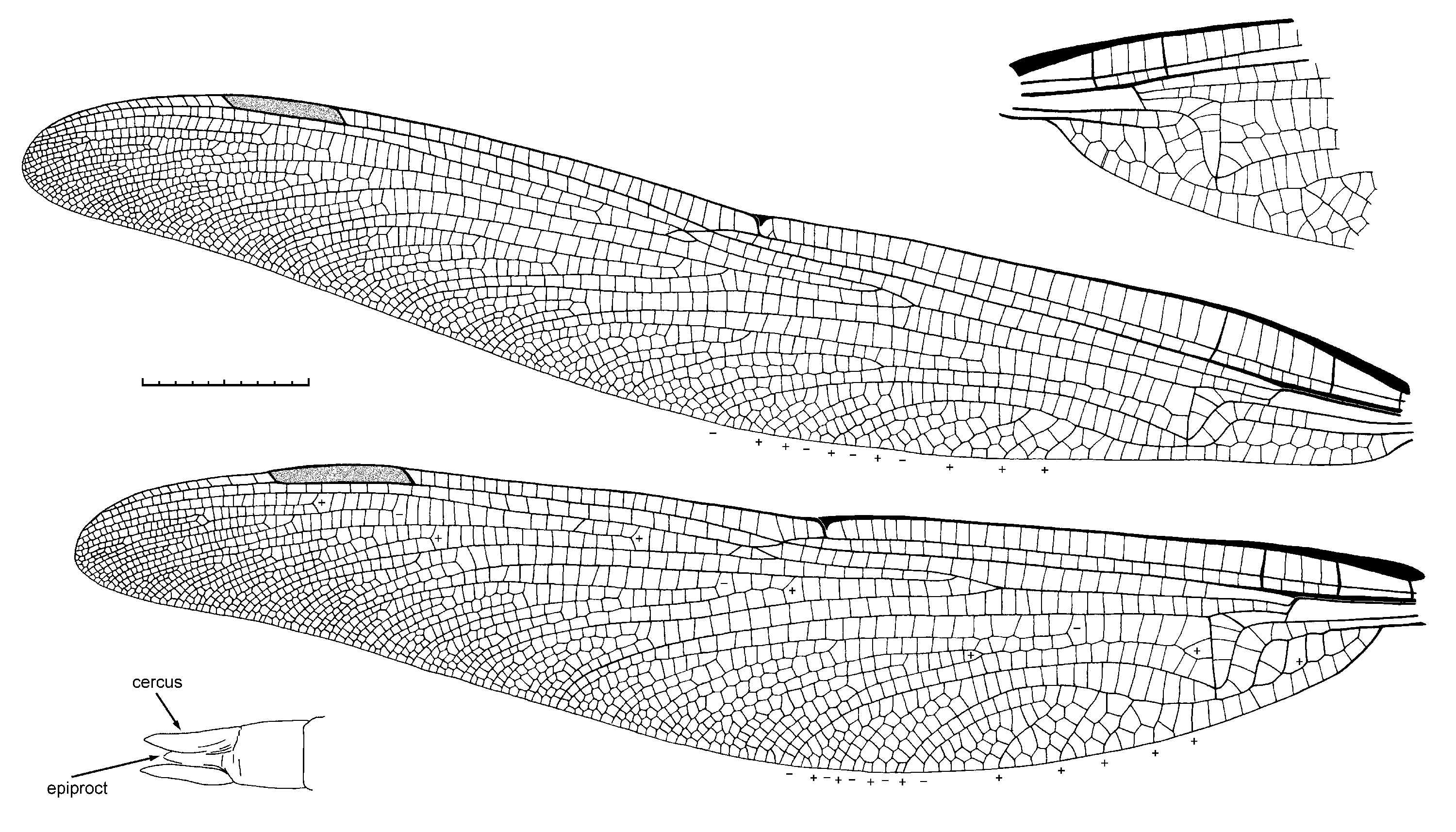 Stenophlebia amphitrite (Odonata: Stenophlebiidae), Upper Jurassic, Solnhofen Plattenkalk, specimen no. 4D in private collection Dieter Kümpel (Wuppertal), drawing of wing venation and terminalia by Dr. Günter Bechly